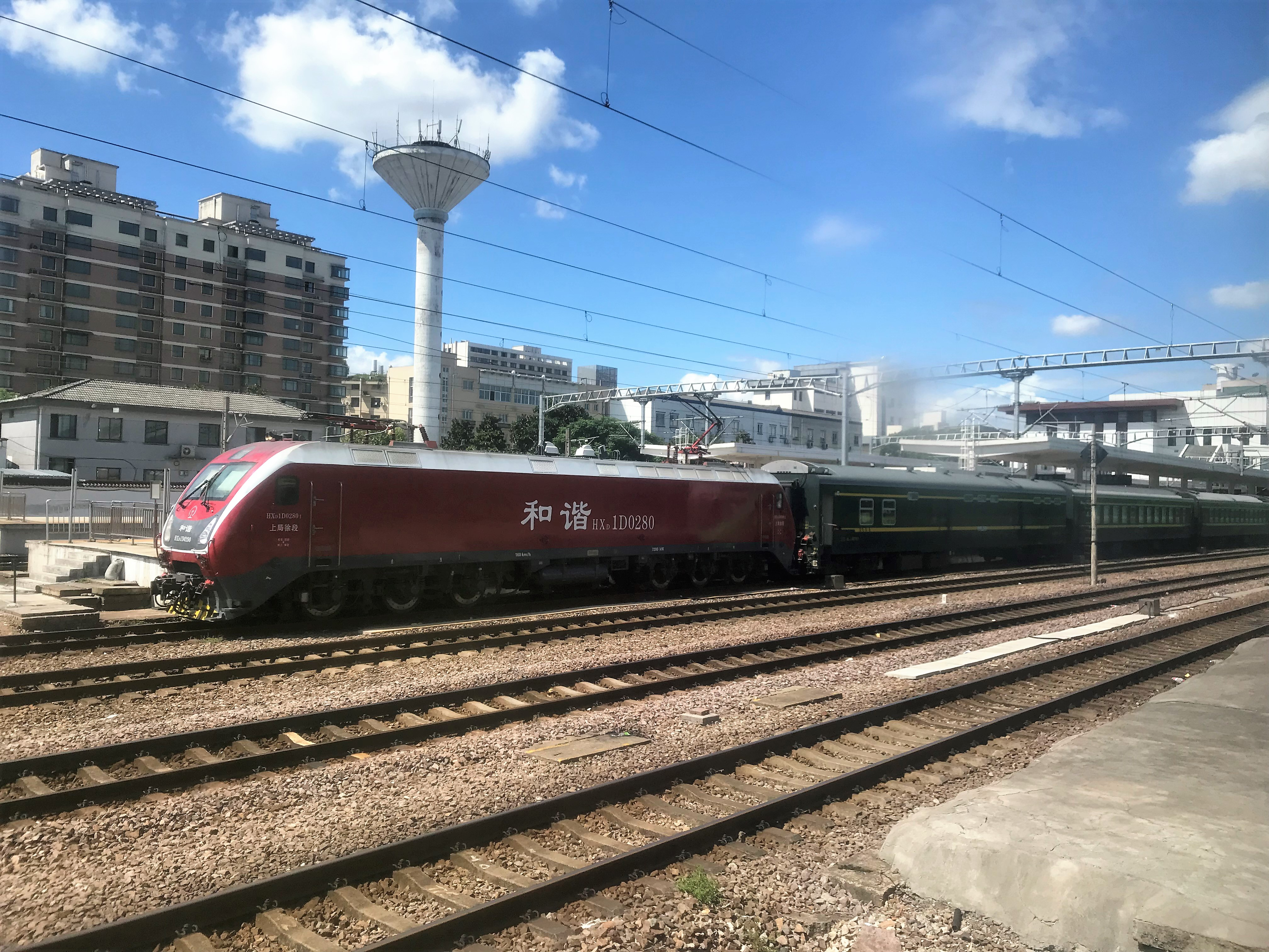 Taken on T82